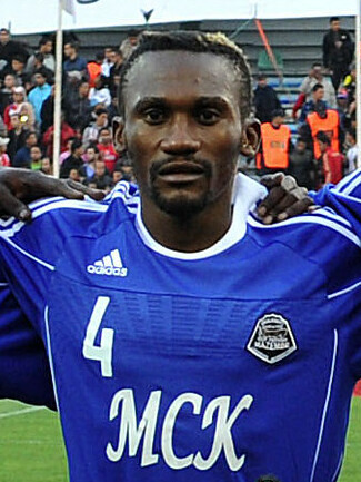 TP MAZEMBE